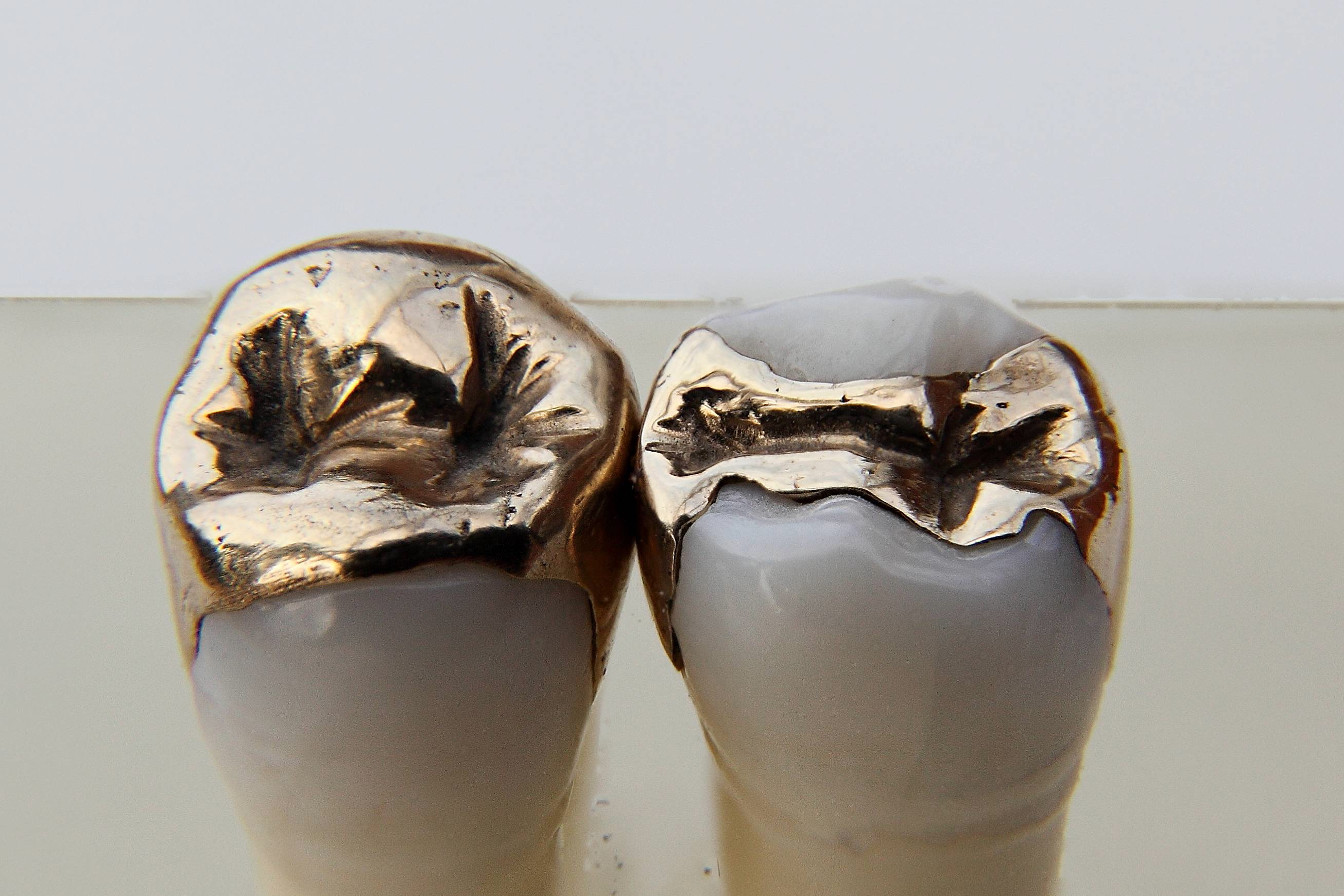 Dental Inlays; Focus stacking with freeware CombineZP Gold